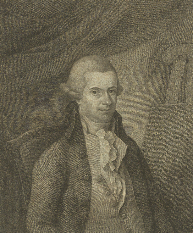 Cyrillo Volkmar Machado